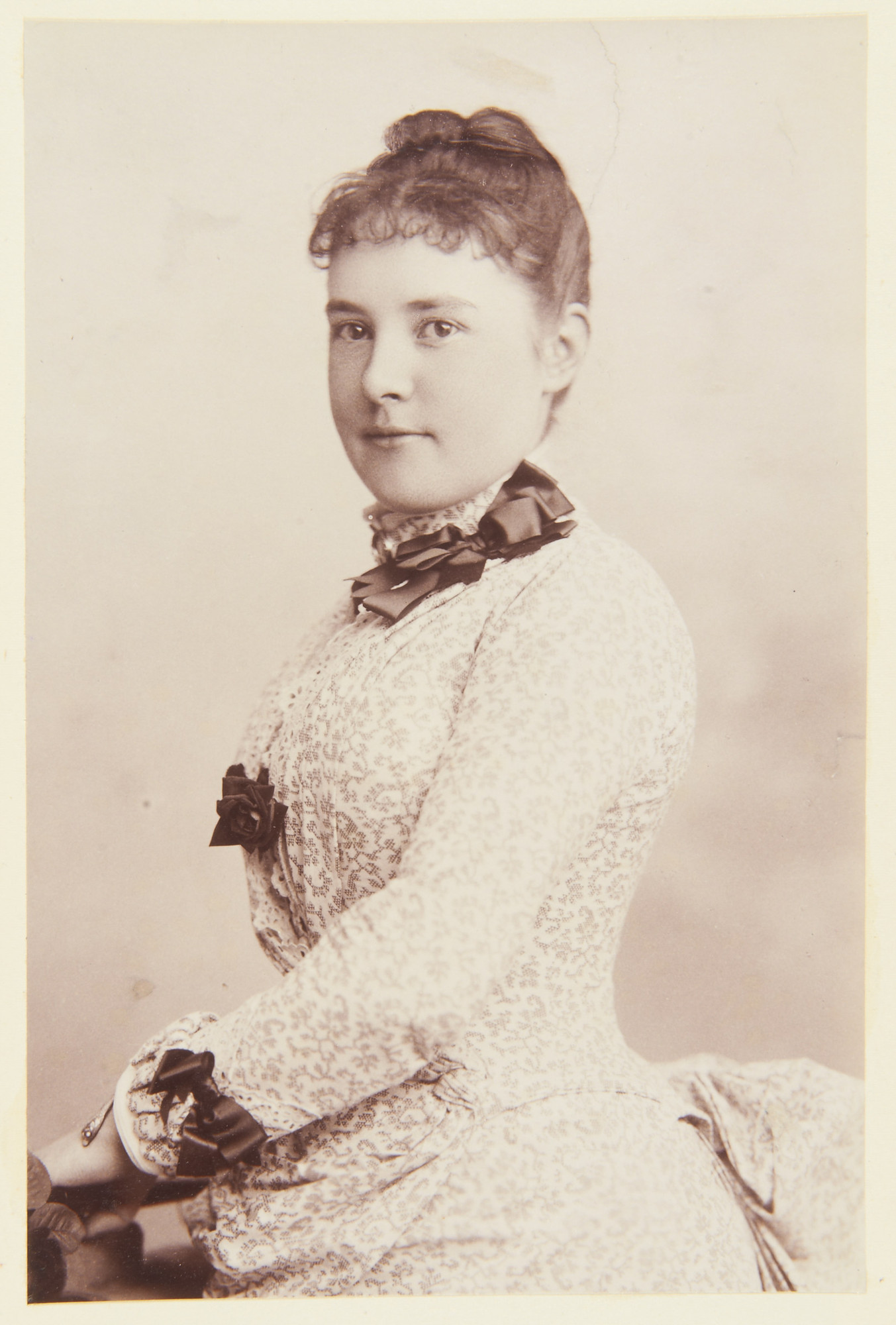 Photograph of Princess Elise facing the viewer. She wears a light coloured patterned dress with ornamental satin (?) bows attached at the neck and waist and a satin rose at front of dres